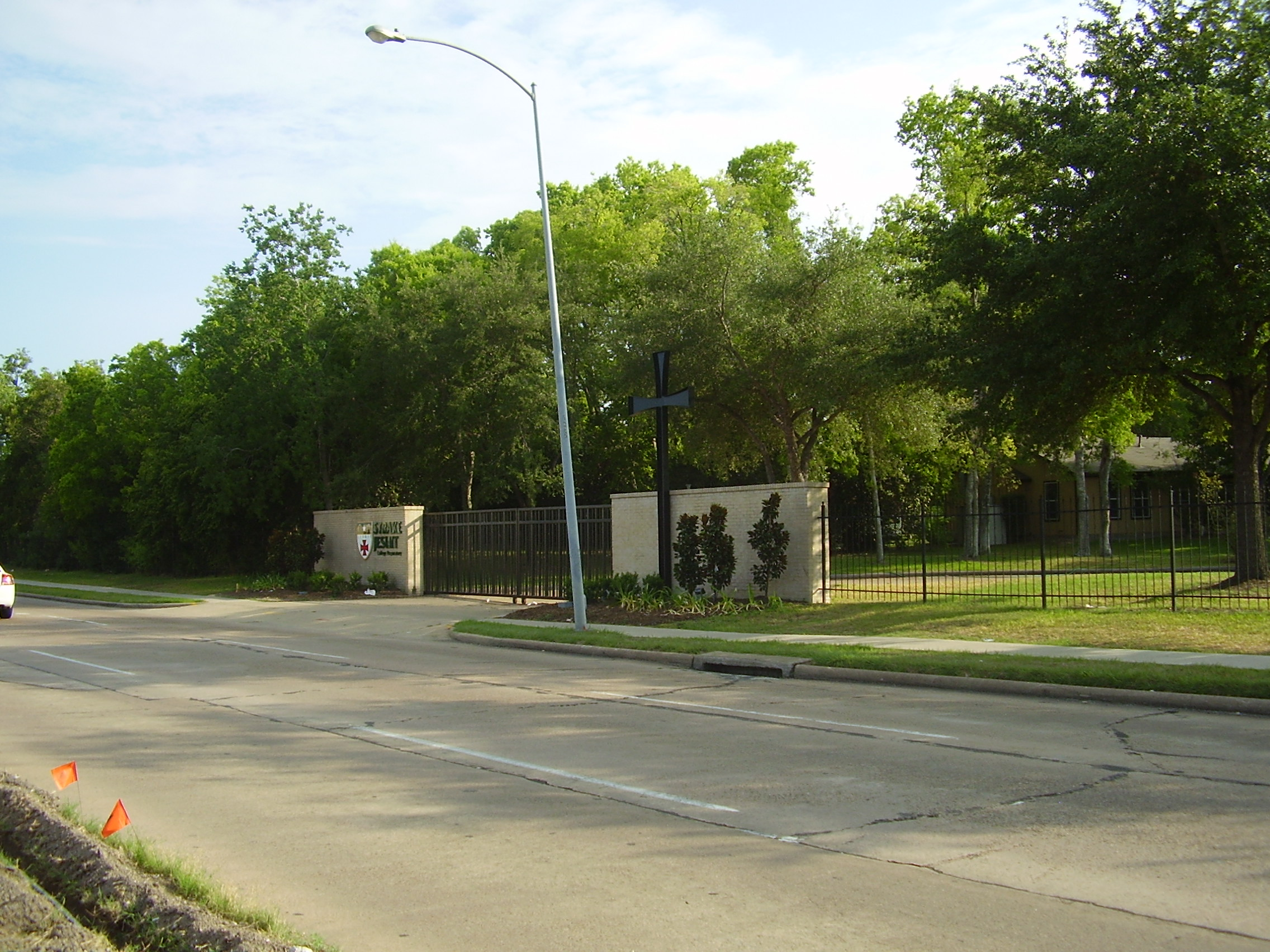 Strake Jesuit College Preparatory